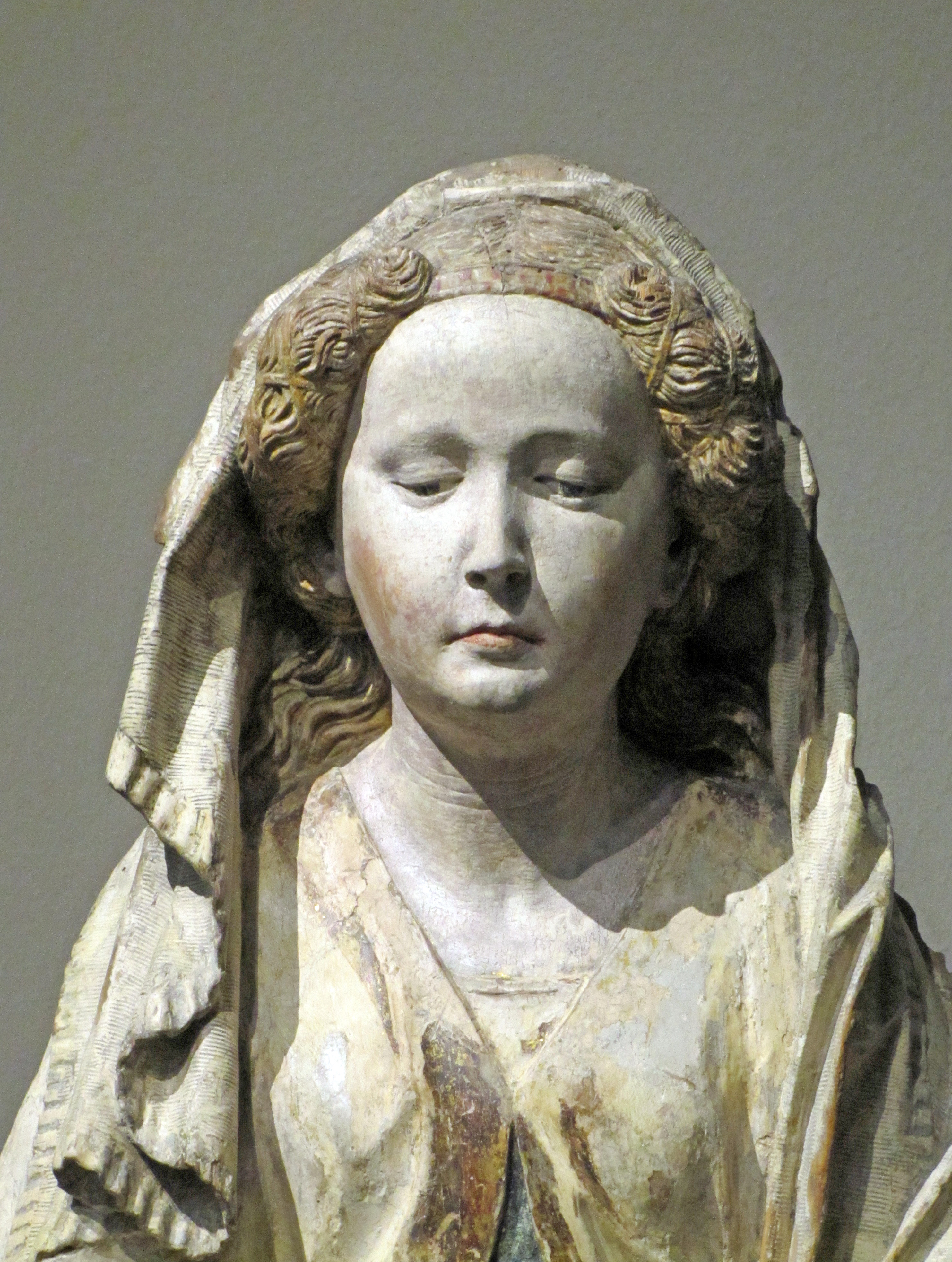 Detail of: St. Mary Magdalene, ca. 1465, Ulm, Hans Multscher (1400-1467), willow, at "Liebieghaus" in Frankfurt am Main, Germany.